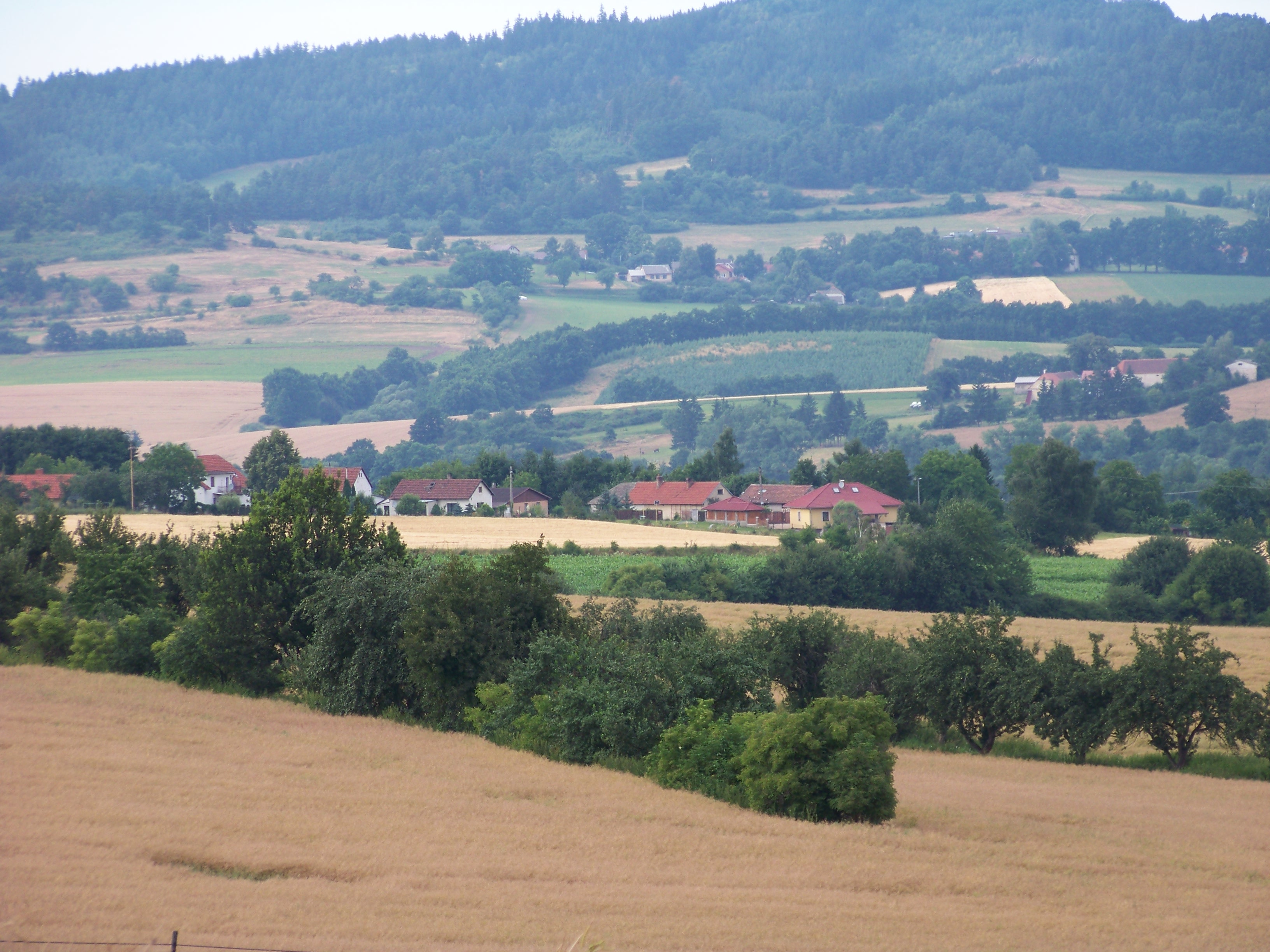 Sedlec-Prčice-Lidkovice, Příbram District, Central Bohemian Region, the Czech Republic. Radiocommunication centre. - Google Maps - Google Earth